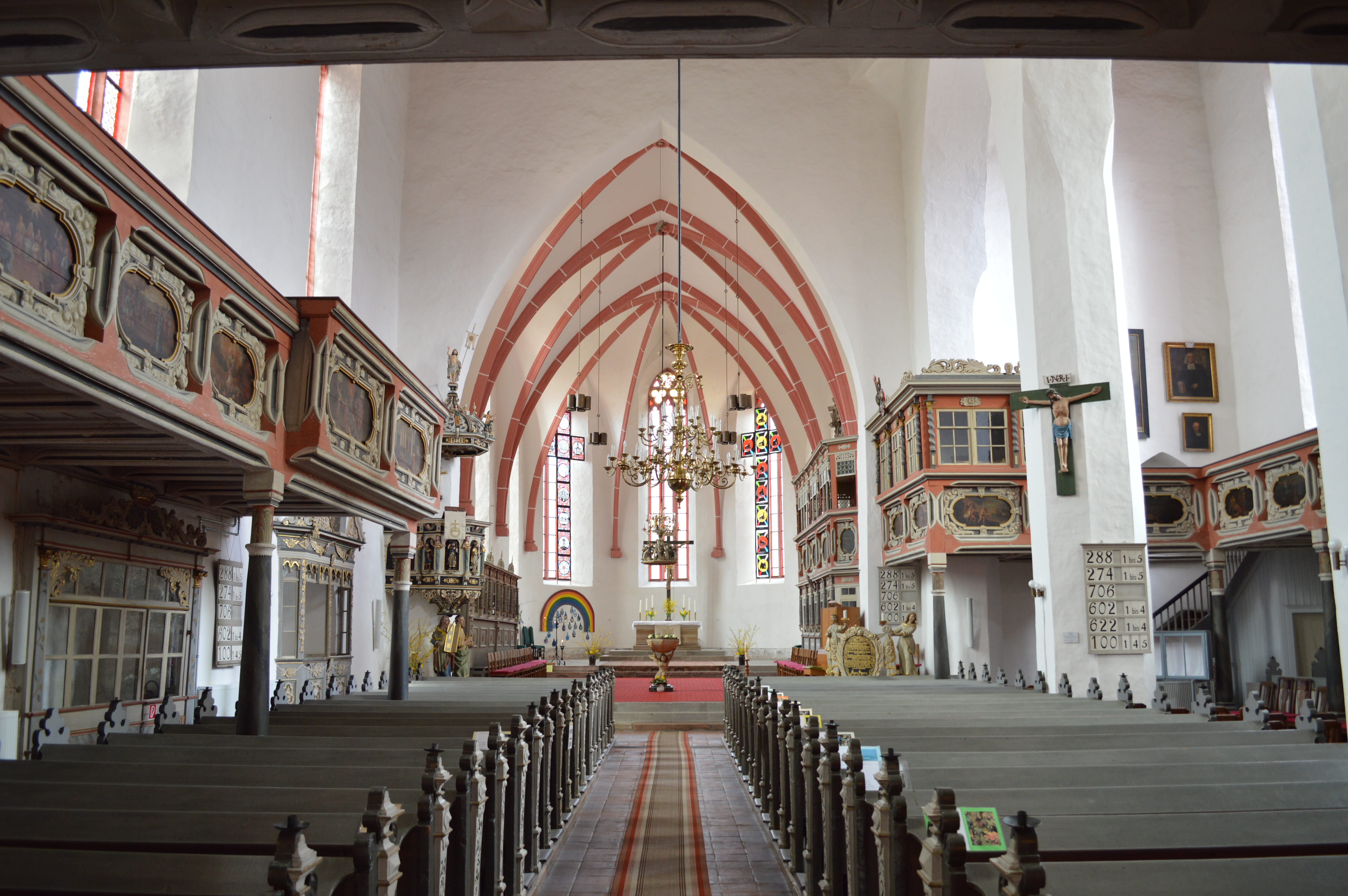 Weida, Thuringia, Germany, in April 2013: Interior of Stadtkirche St. Marien (St Mary's Town Church)